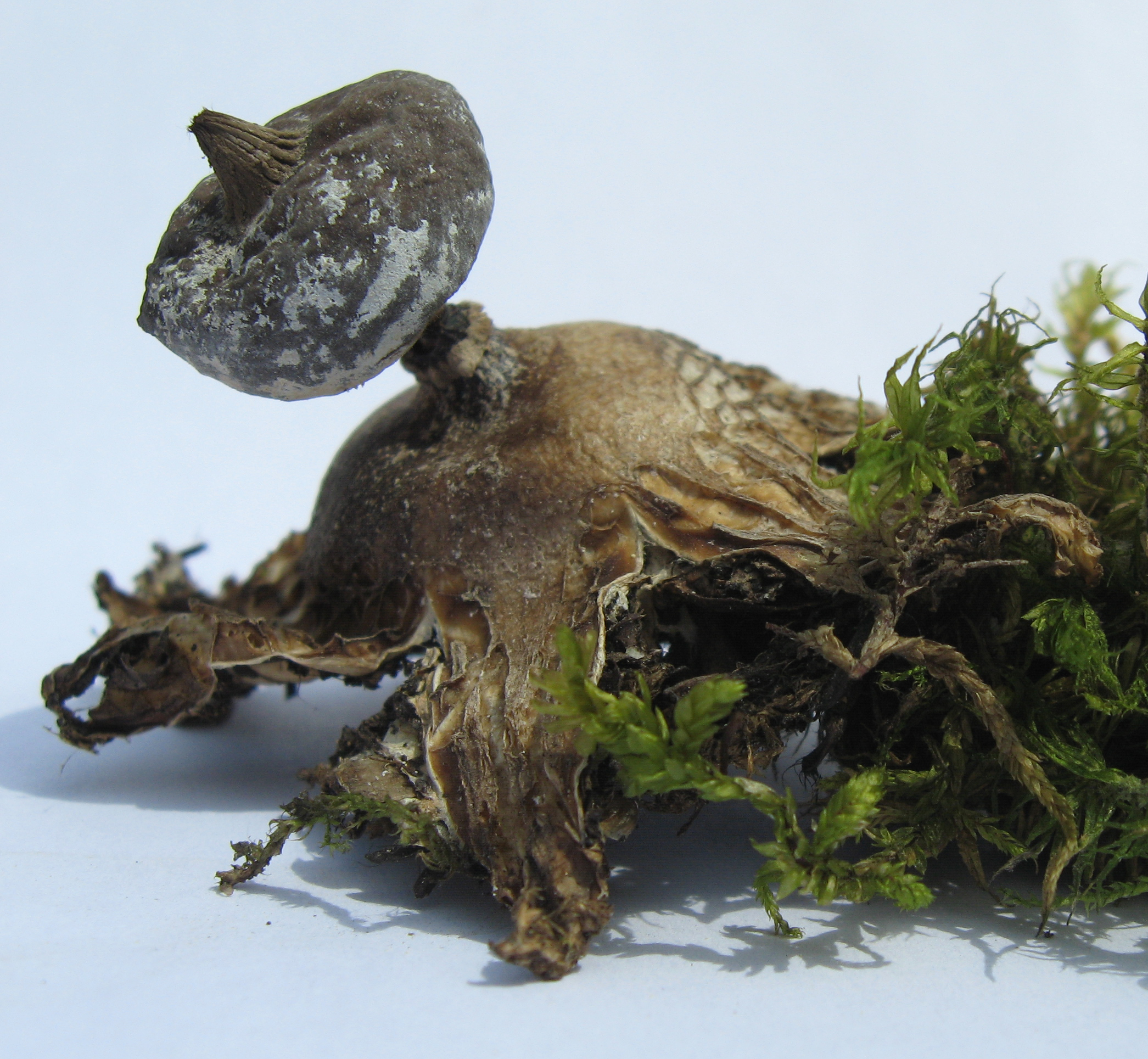 The "beaked earthstar" fungus Geastrum saccatum Pers. Side view of dried specimen.